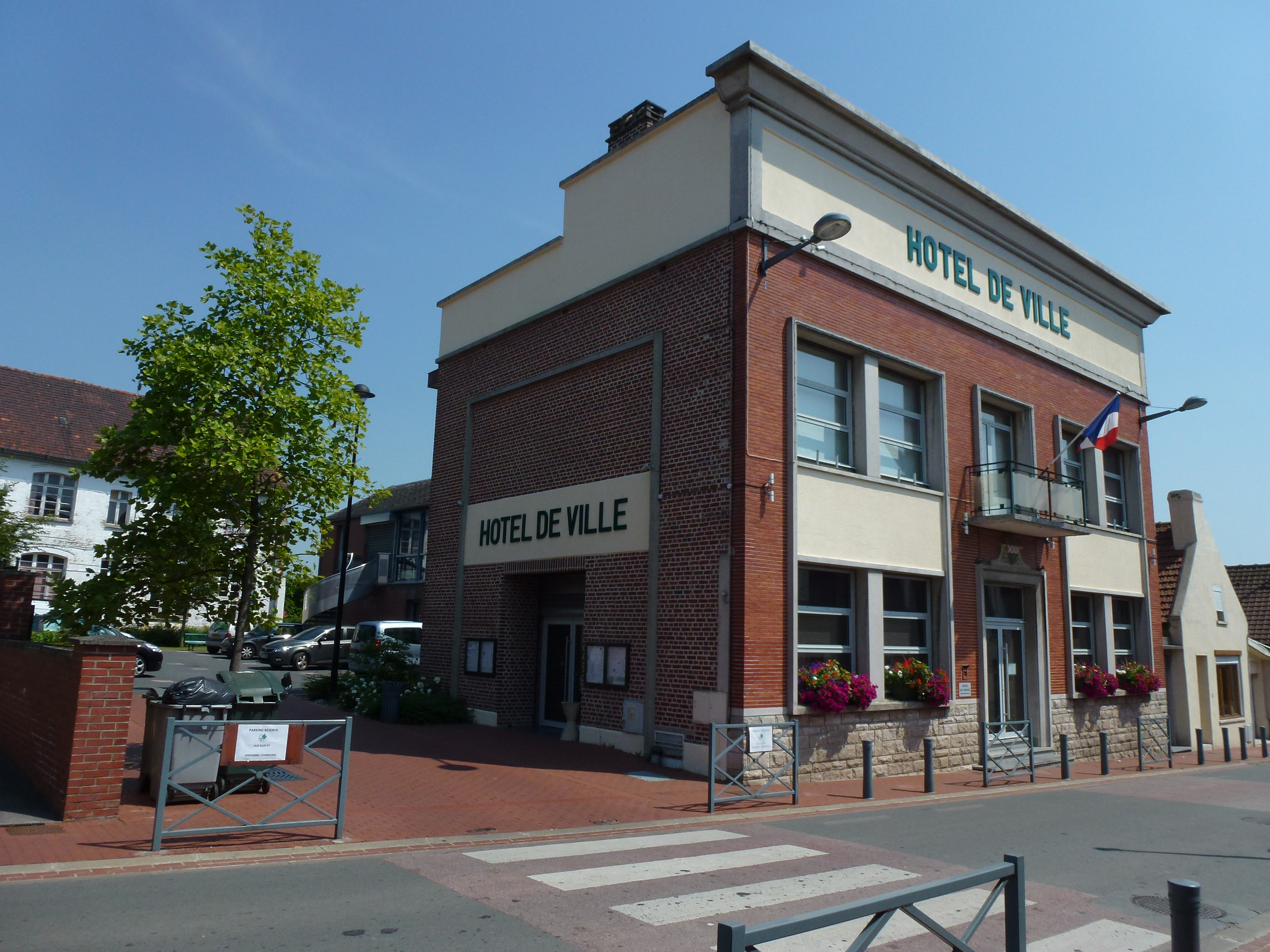 Prouvy (Nord, Fr) Mairie